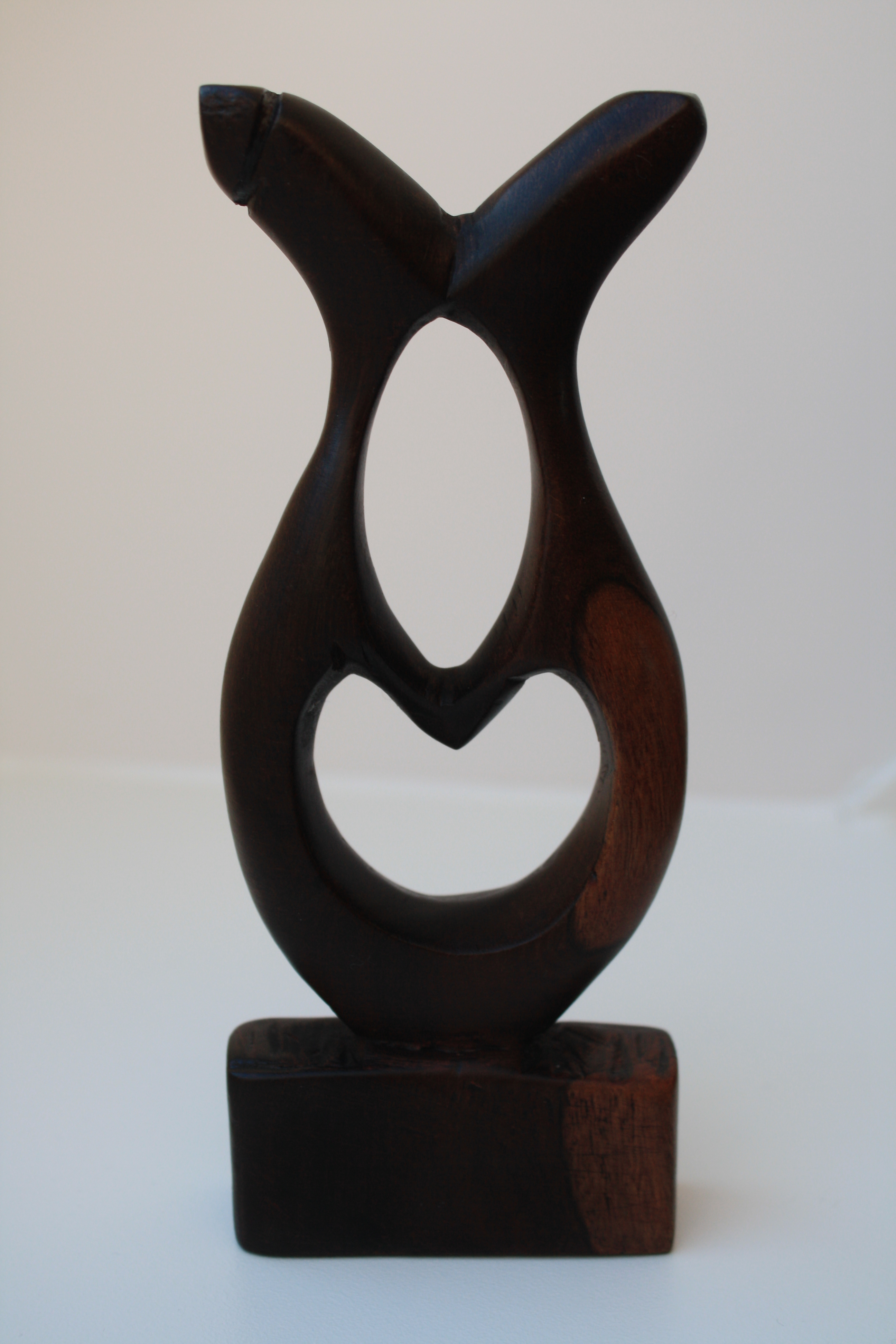 Carved work from Diospyros crassiflora-wood (Ghana). Two kissing people.